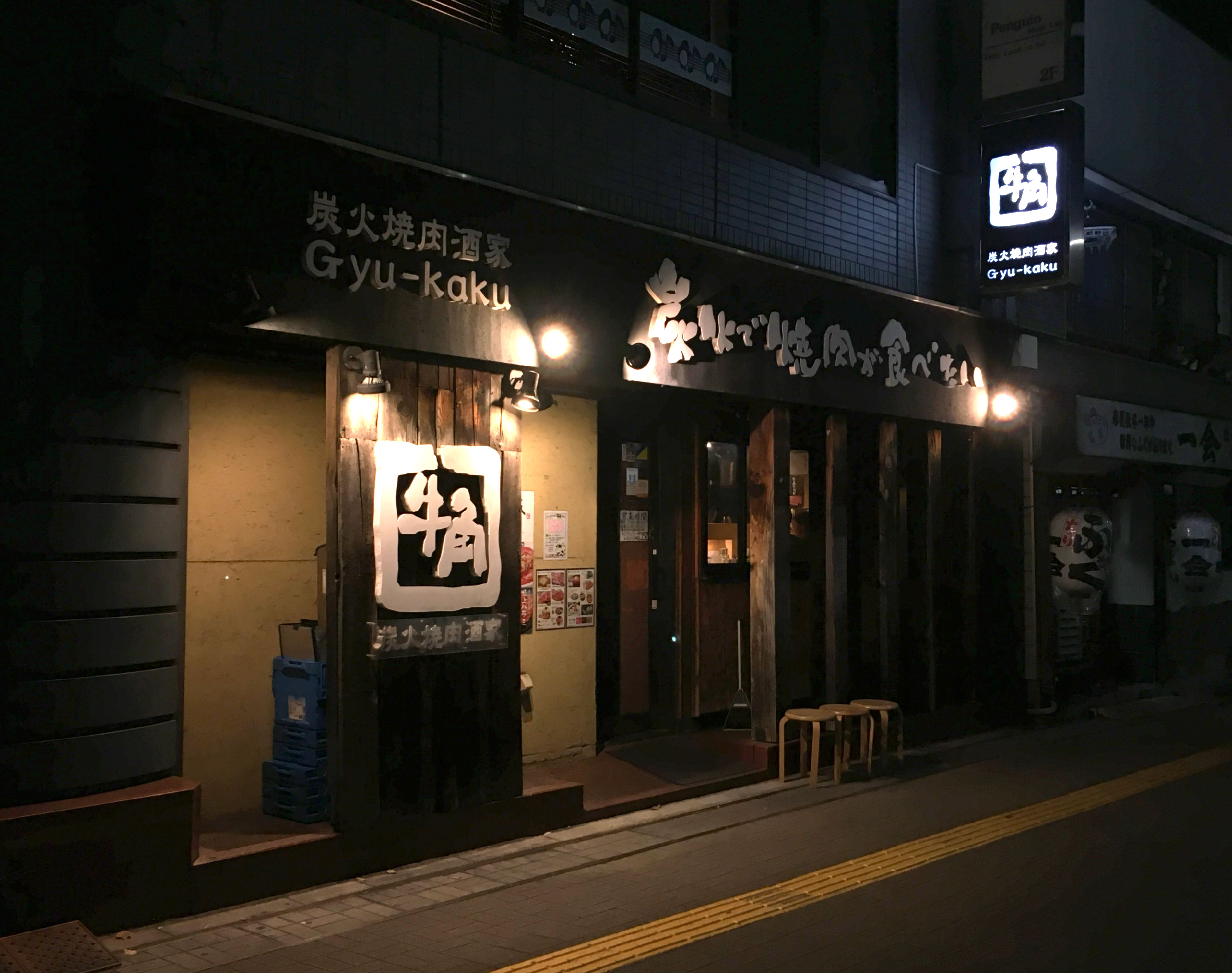 Gyukaku (Japanese grilled meat restaurant) Nerima branch (Tokyo, Japan)